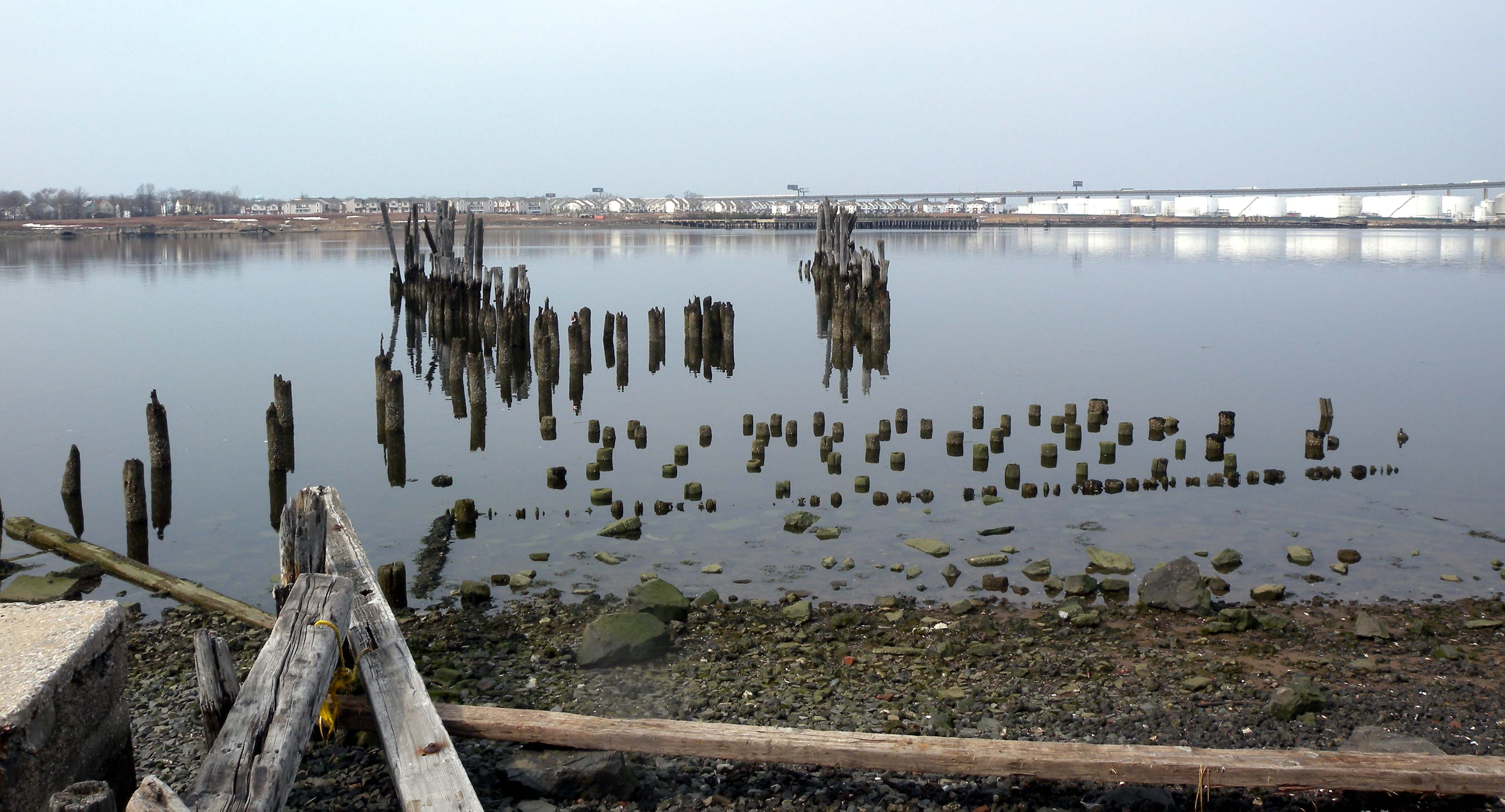 Looking northwest at pilings for Perth Amboy ferry on a cloudy afternoon.